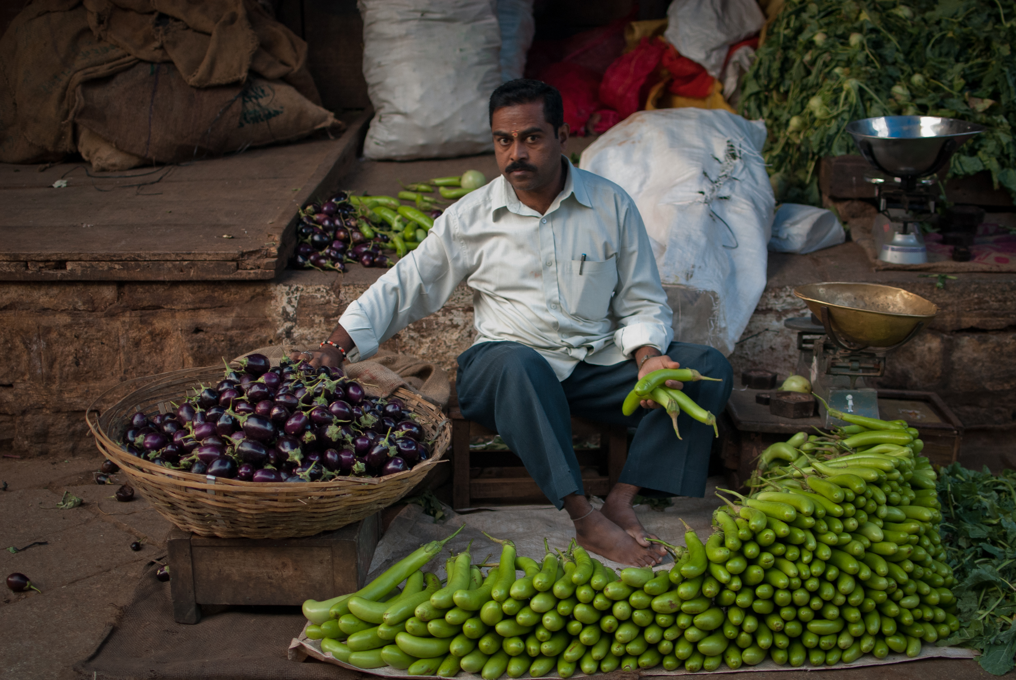 In the Mysore food market, at the horribly early 7am.